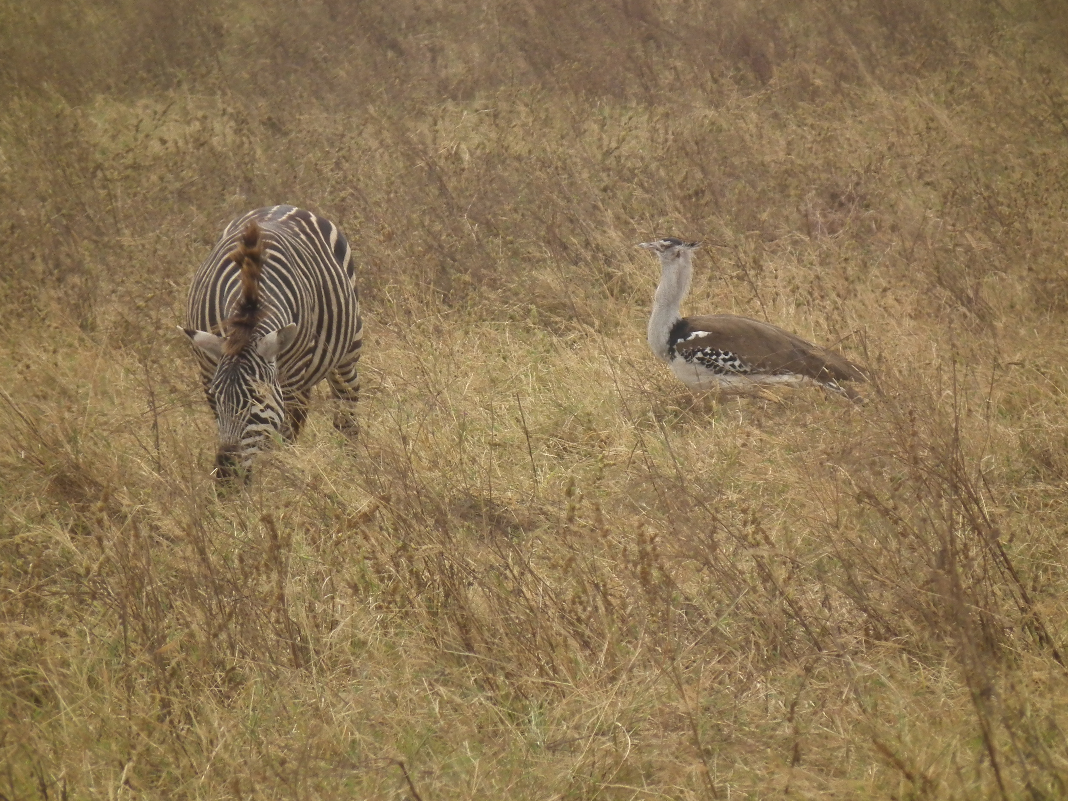 Plains zebra, Equus quagga, Northern Tanzania